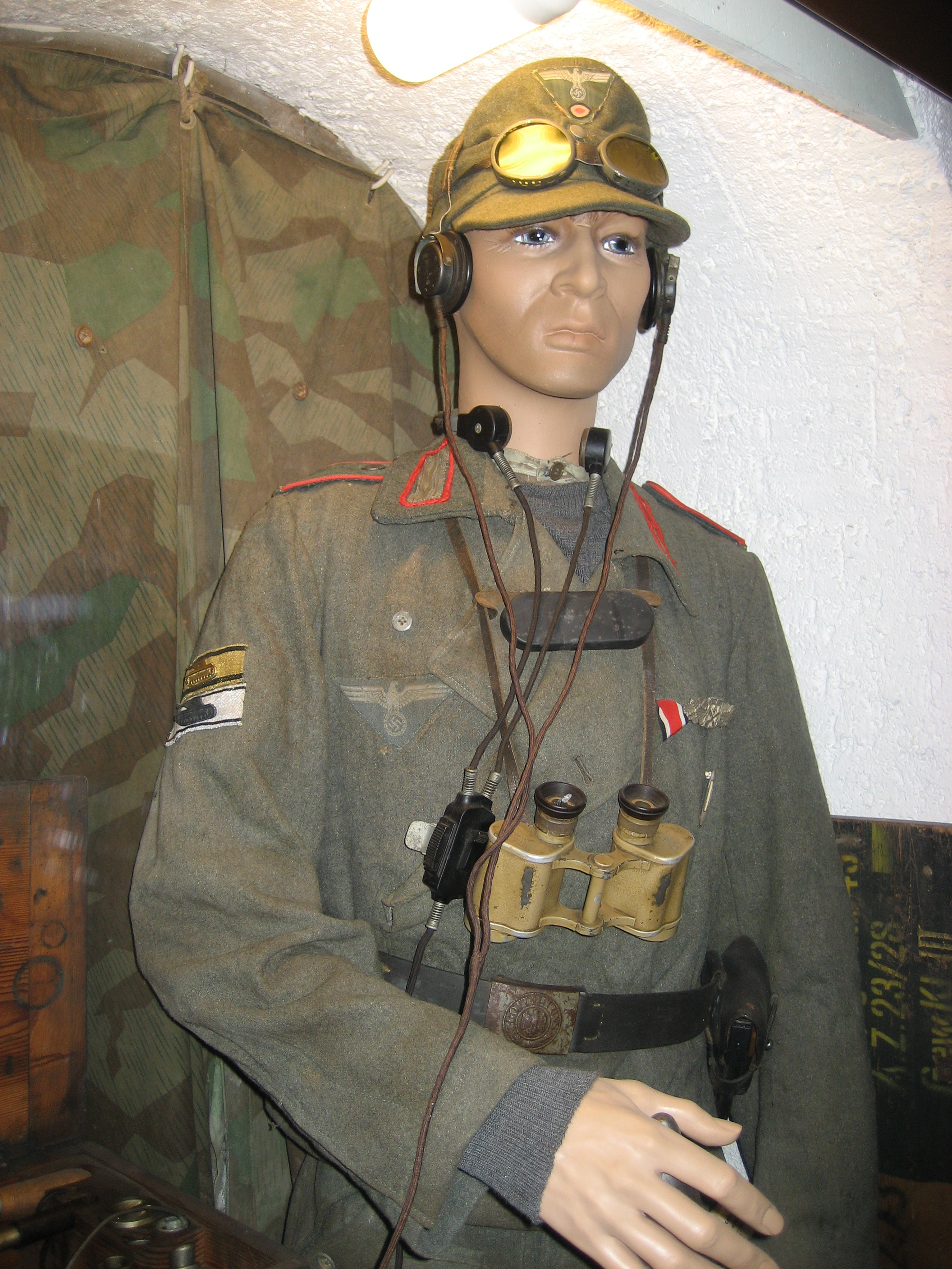 Uniform of the German Wehrmacht/ Heer (coloure: field grey), here Cannoneer (OR1) of an assault gun crew. Picture taken at National Museum of Military History (Luxembourg).